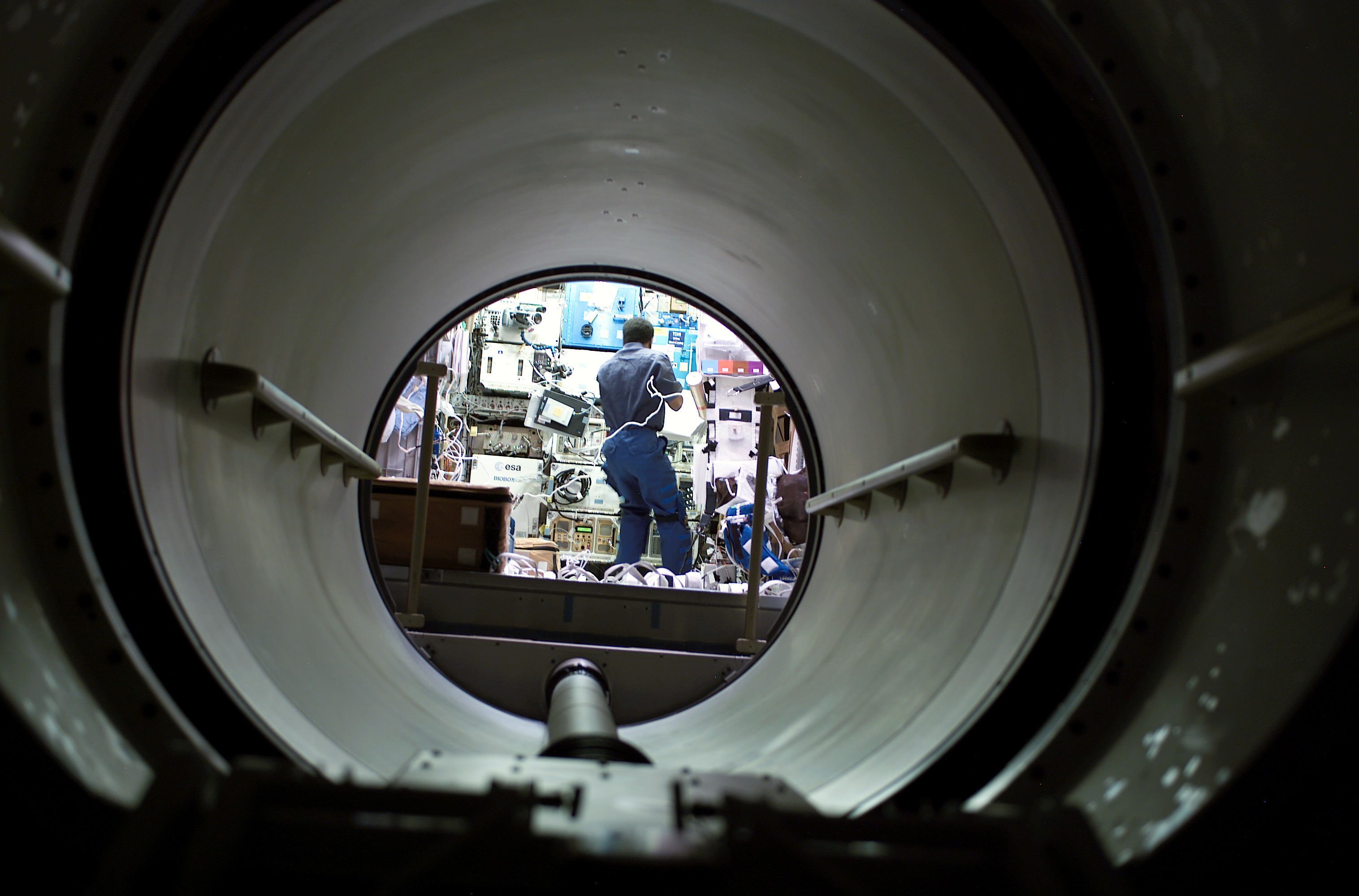 The tunnel linking the SPACEHAB Module to the shuttle's crew cabin provides an interesting point of view in this scene of astronaut Michael P. Anderson, mission specialist, performing work in SPACEHAB